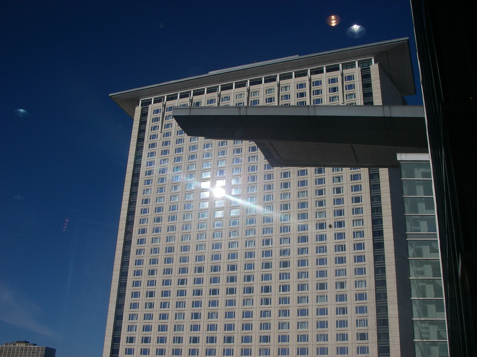 The Hyatt Hotel at McCormick Place in Chicago (viewed the main entrance)